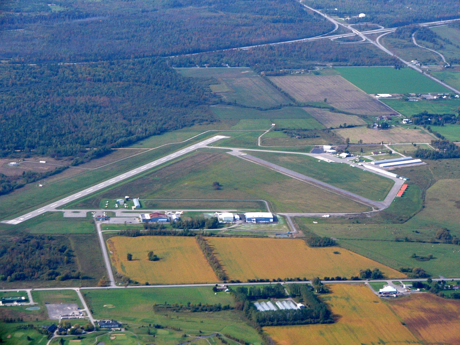 Aerial photograph of Carp Airport Ontario, looking west